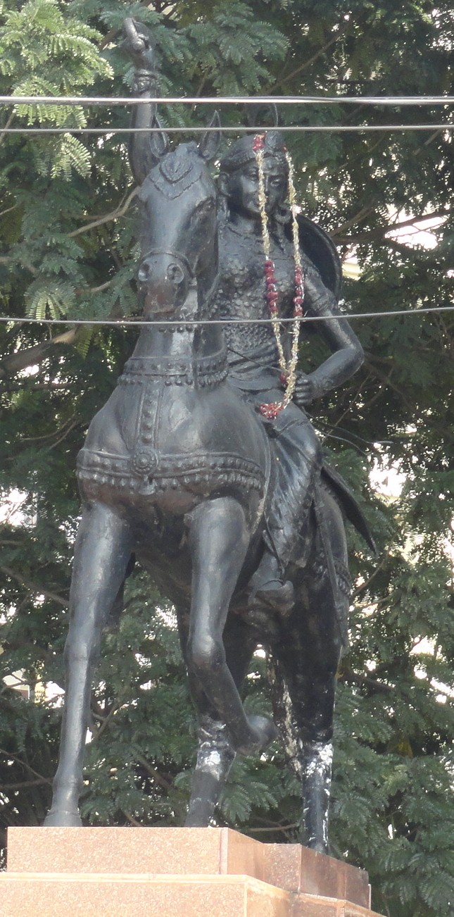 statue of rani rudrama devi